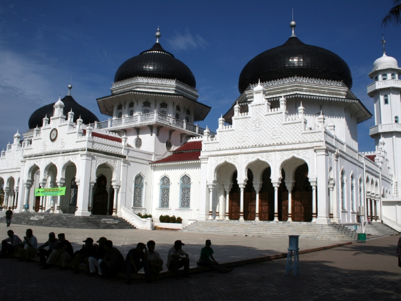 Silent witness - tsunami 2005